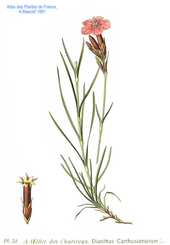 Dianthus carthusianorum L.